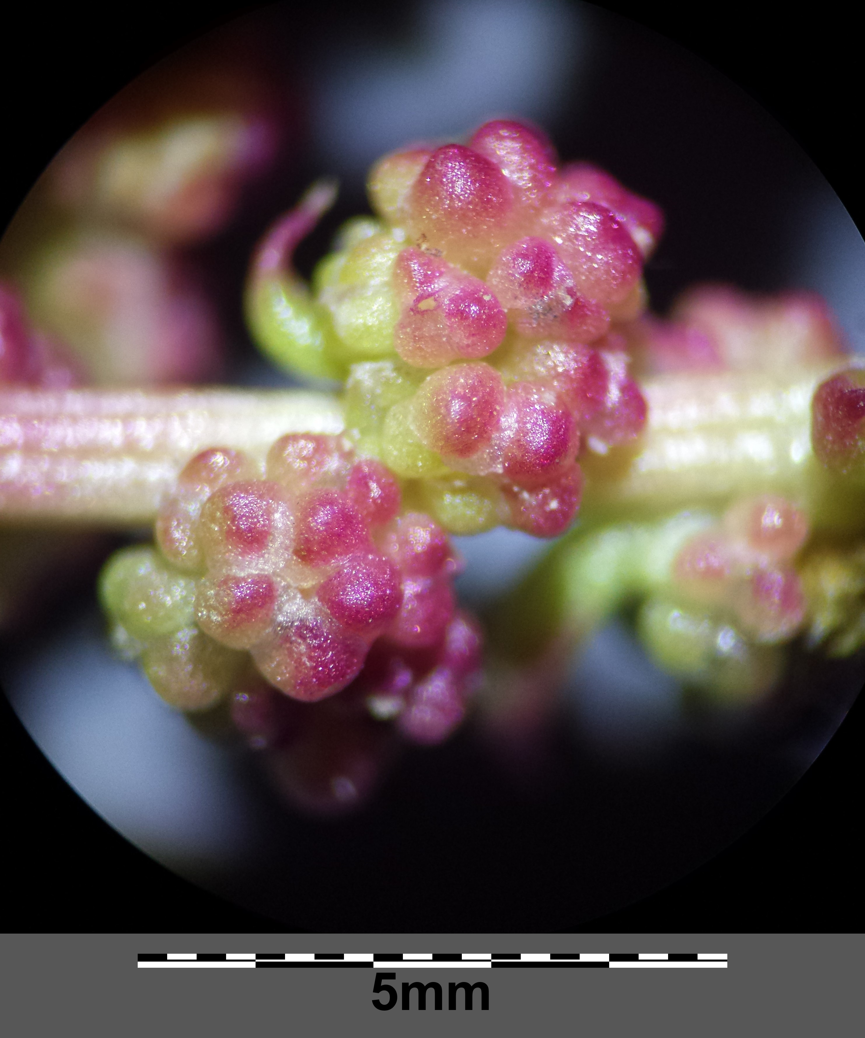 Inflorescence (detail) Taxonym: Chenopodium chenopodioides ss Fischer et al. EfÖLS 2008 ISBN 978-3-85474-187-9 Location: Sechsmahdlacke (Seewinkel), district Neusiedl am See, Burgenland, Austria - ca. 120 m a.s.l. Habitat: salt lake